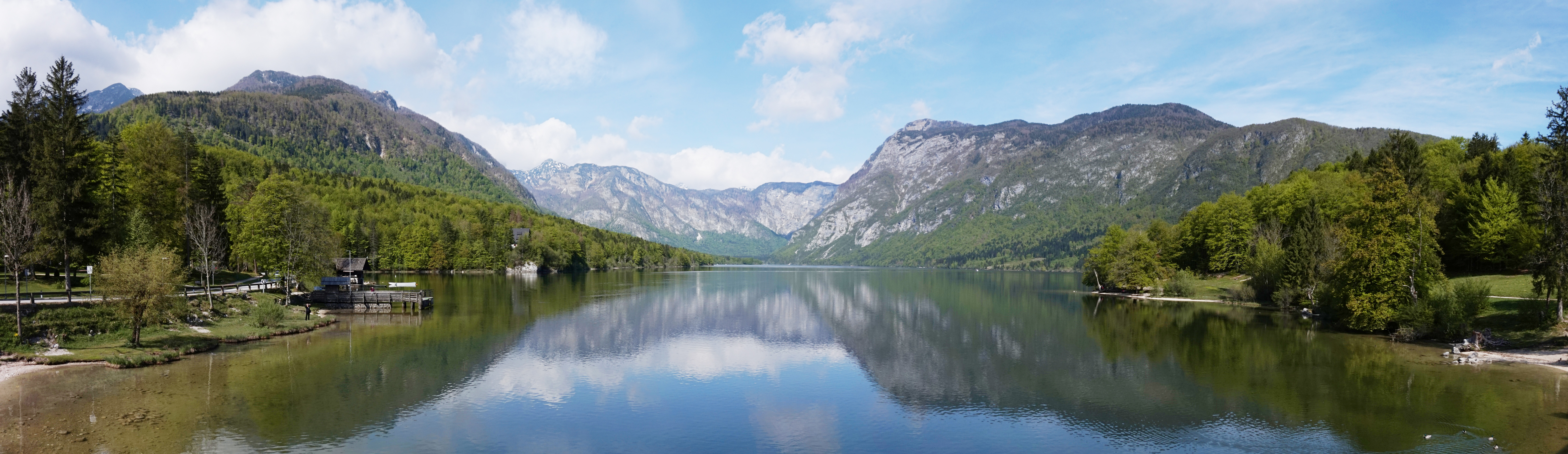 The lake Bohinj in Slovenia. This photograph was taken with a Sony Alpha a5000.